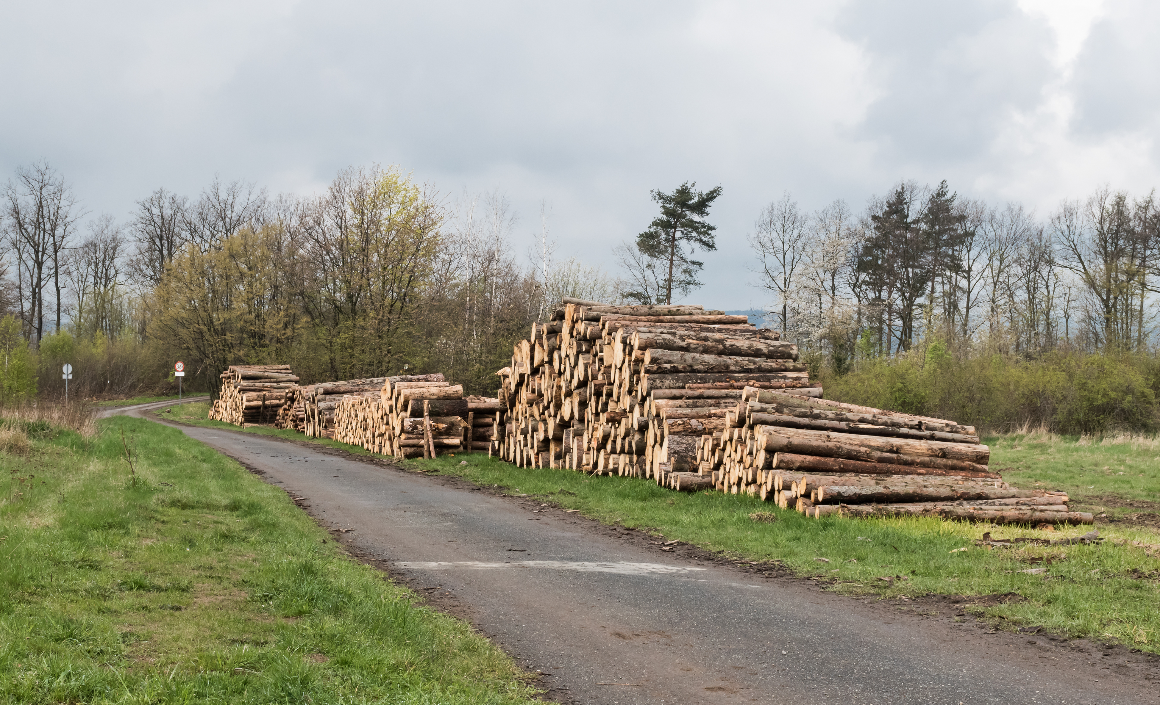 Woodpiles in Dębowina